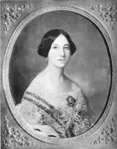 Luisa Teresa of Borbon (1824-1900)